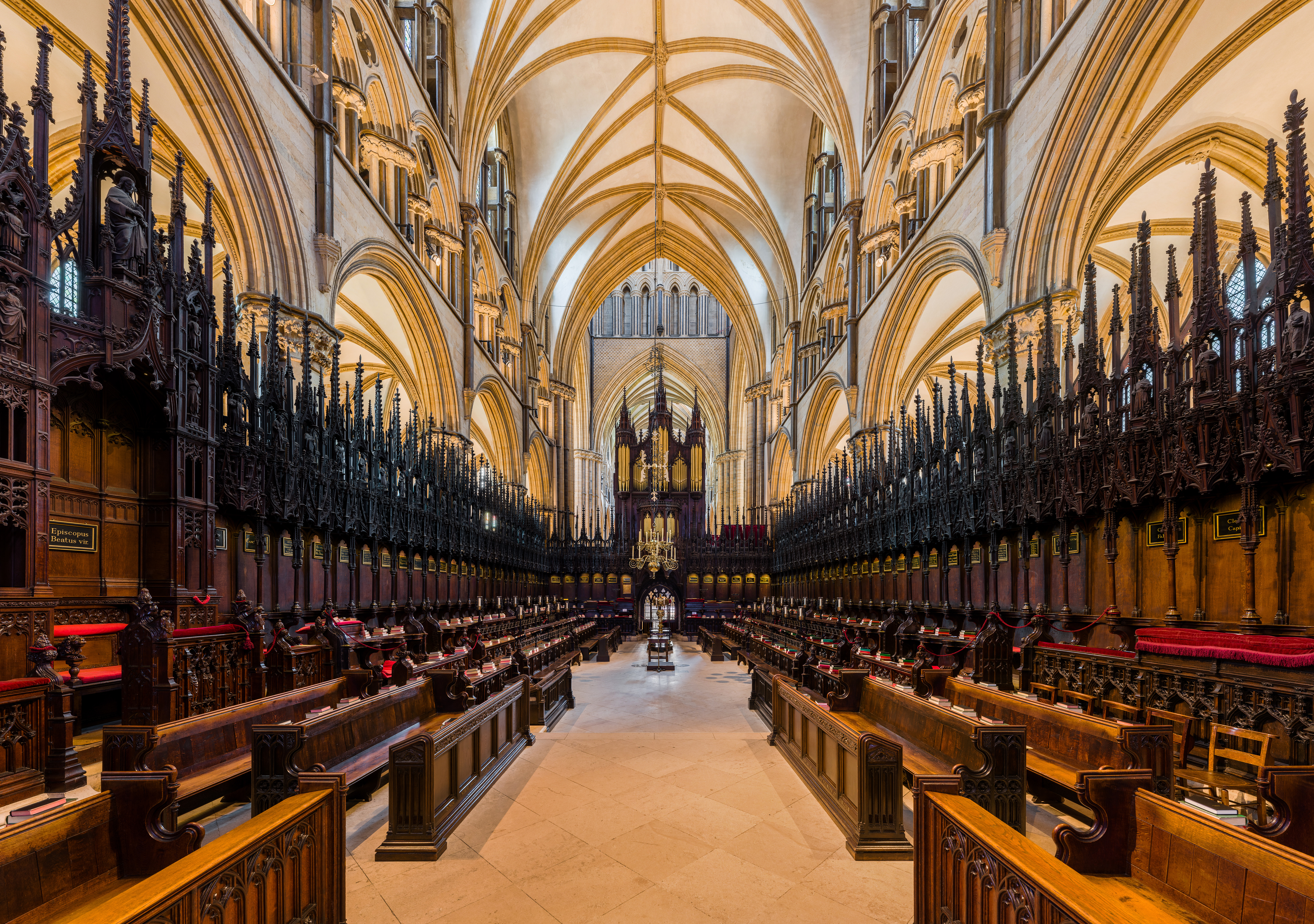 The choir of Lincoln Cathedral looking west, in Lincolnshire, England.